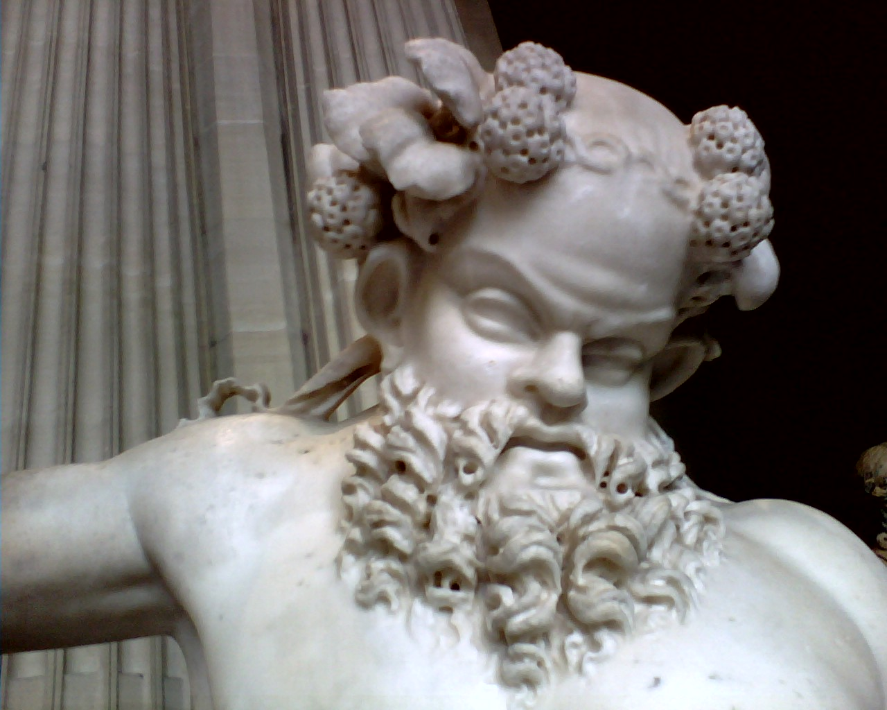 Drunken Silenus. Parian marble, Roman artwork of the 2nd century CE. May be inspired by the Pouring Satyr by Praxiteles.